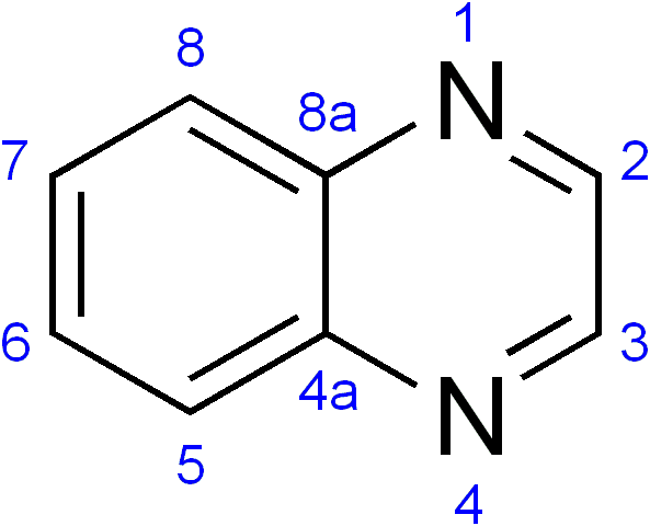 chemical structure of quinoxaline with numbering for systematic nomenclature